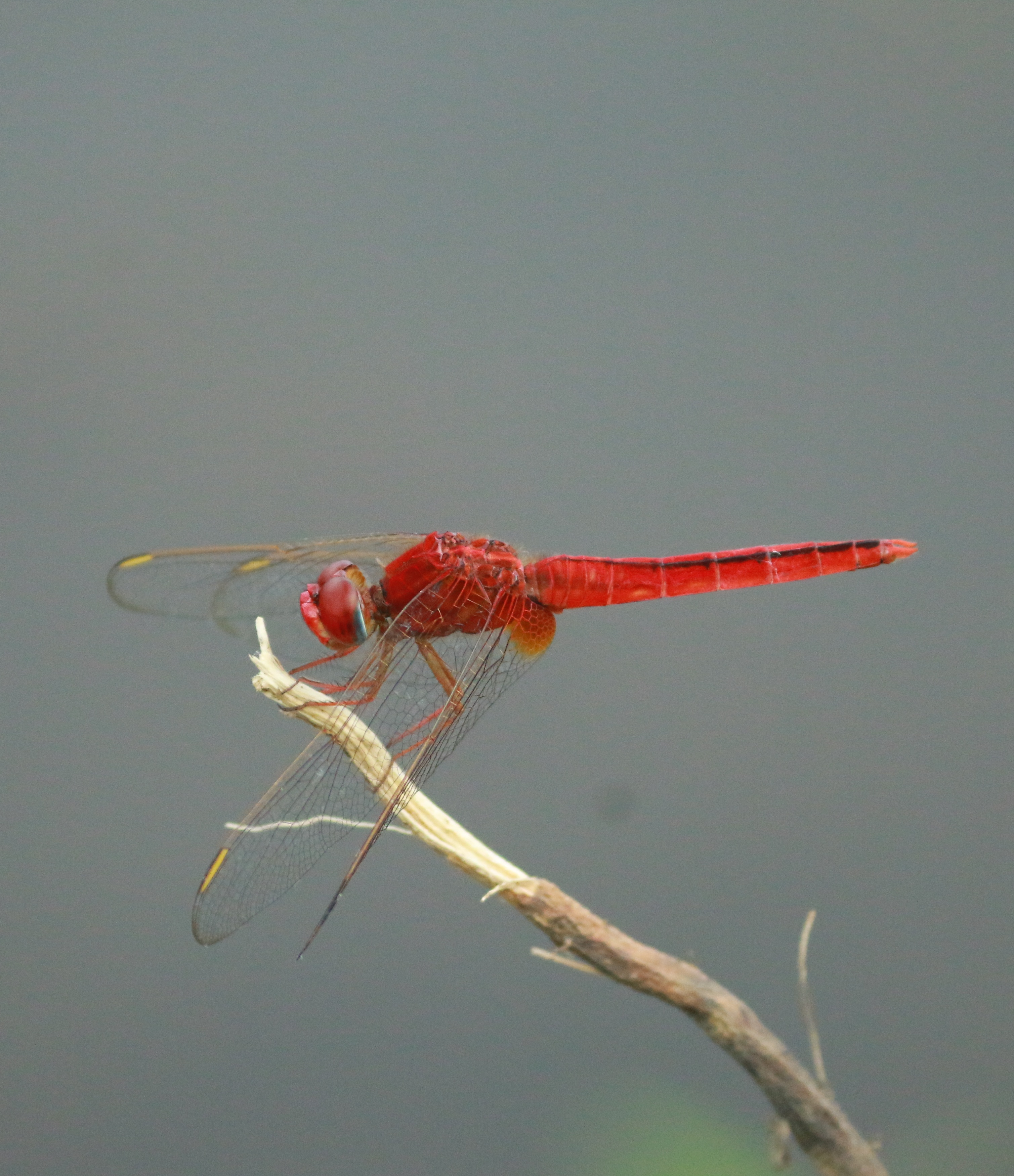 Crocothemis servilia